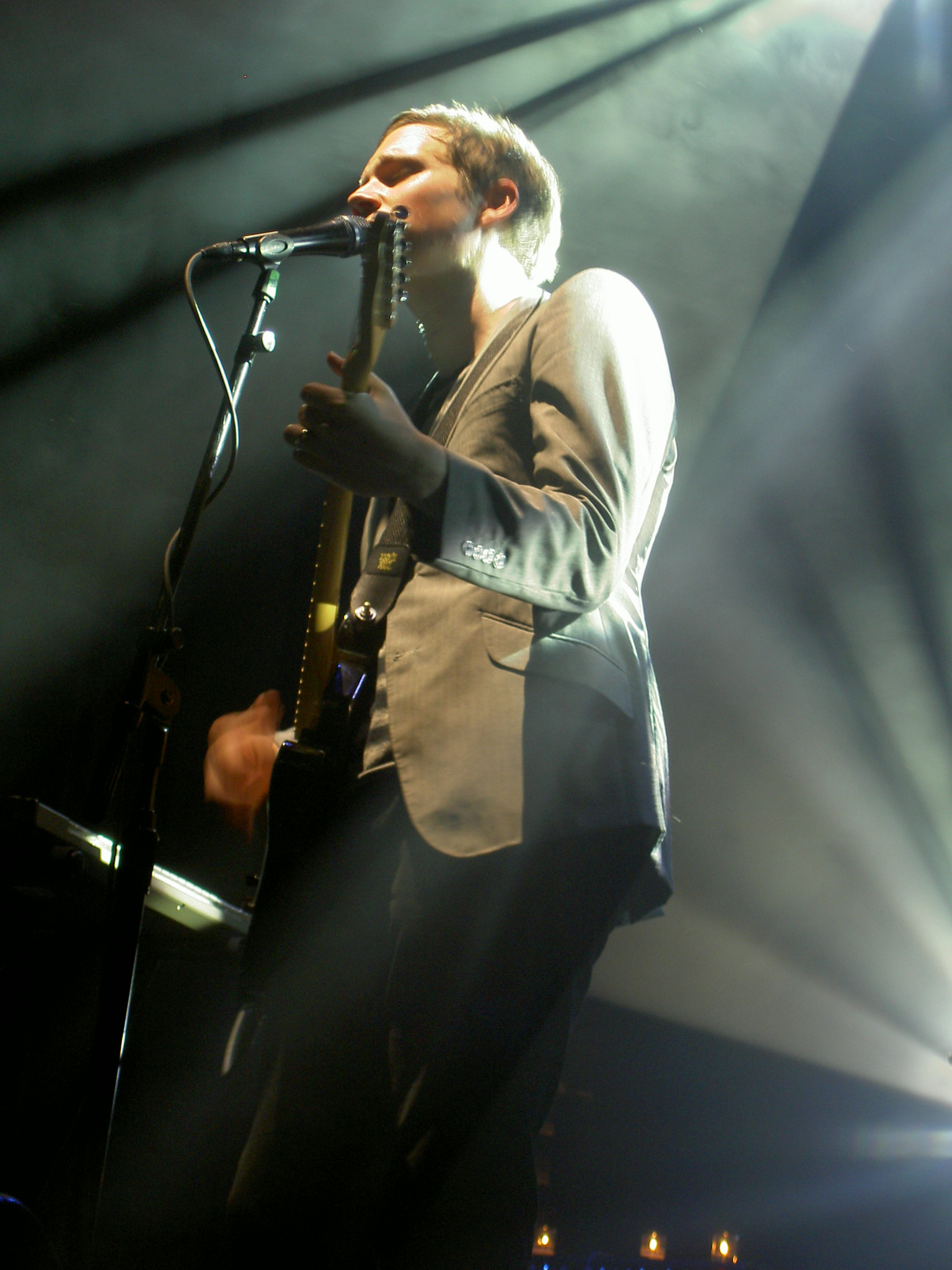 Aqualung at Webster Hall September 2015